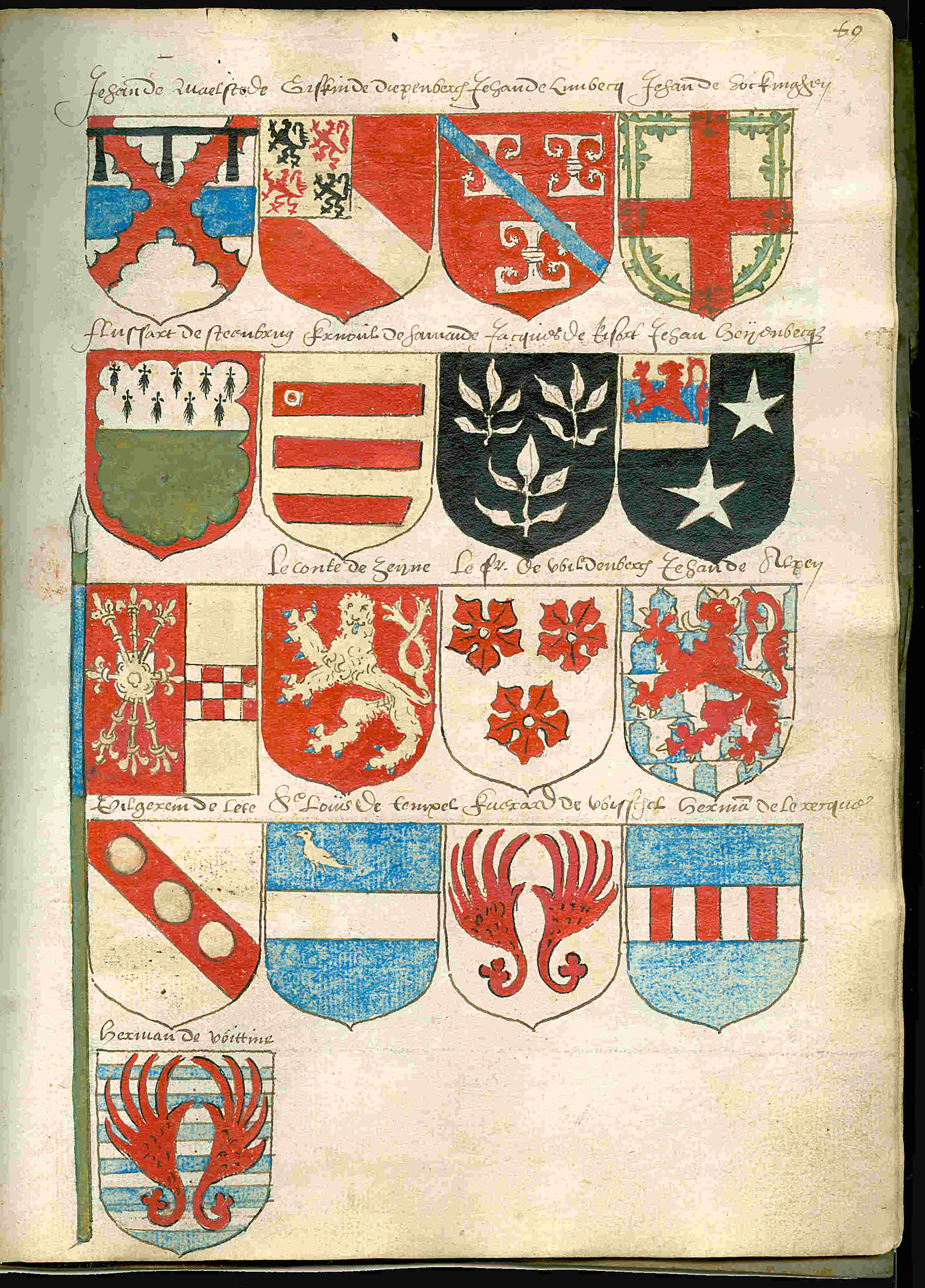 Page 69 from a copy of the Beyeren armorial / Wapenboek Beyeren from ca. 1600. The original Beyeren armorial from 1405 can be viewed at the website of the KB